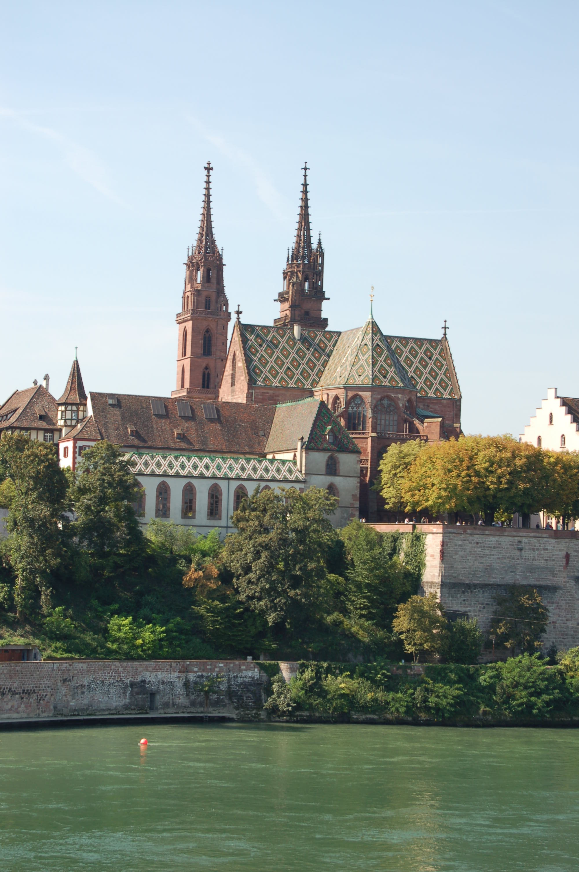 Basle, Switzerland